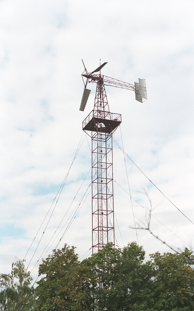 Wind turbine built by A. Ufimtsev and V. Vetchinkin, 1929, Kursk, USSR